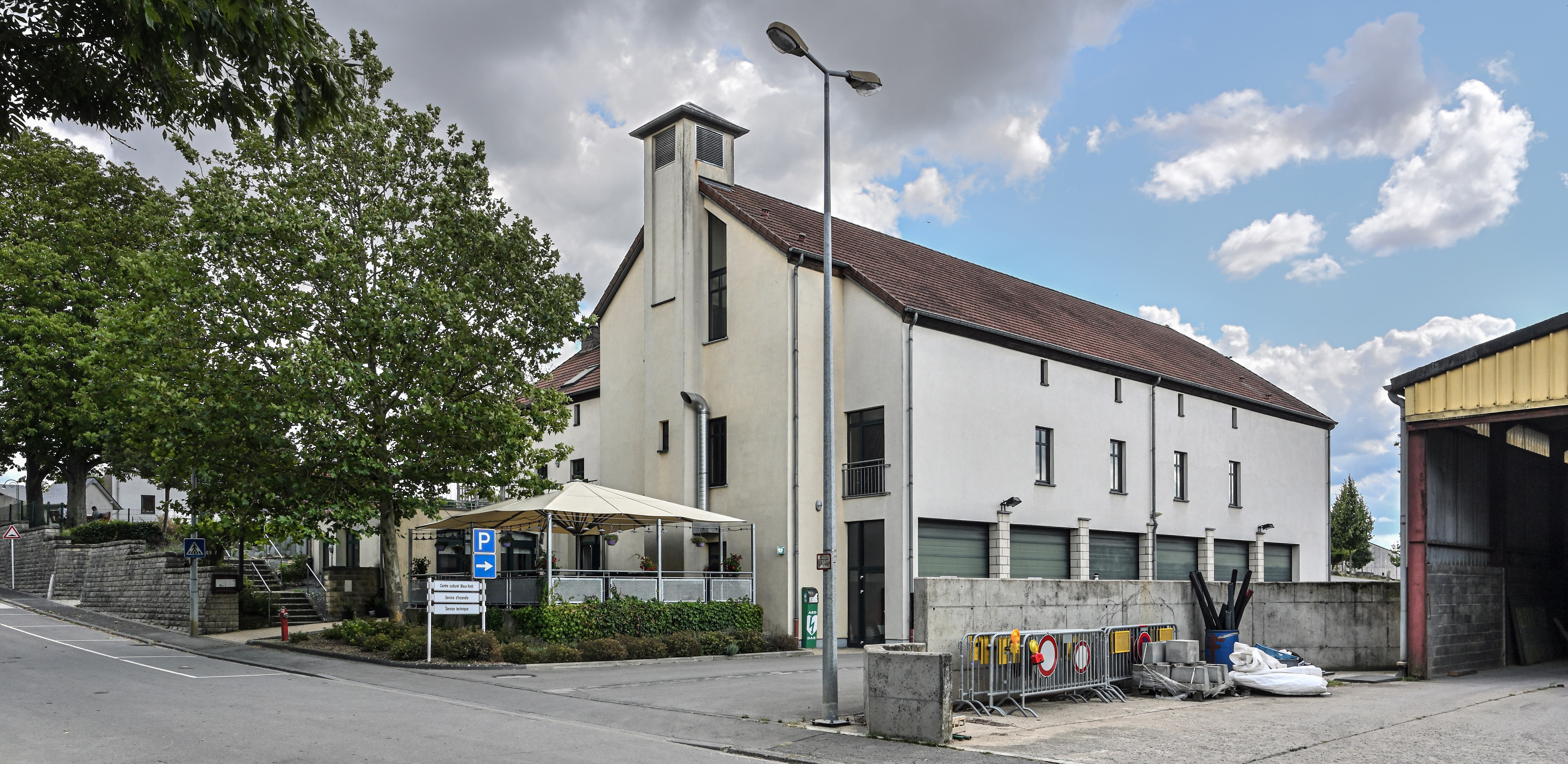 Luxembourg, Burmerange: cultural centre Maus Ketti. with restaurant Am Fräschepull (frog pool).